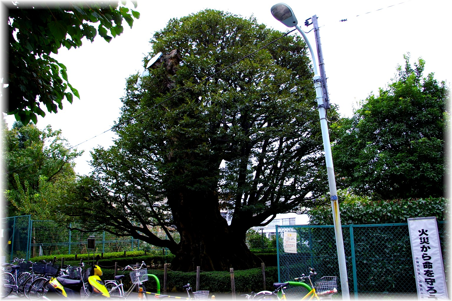 Castanopsis sieboldii